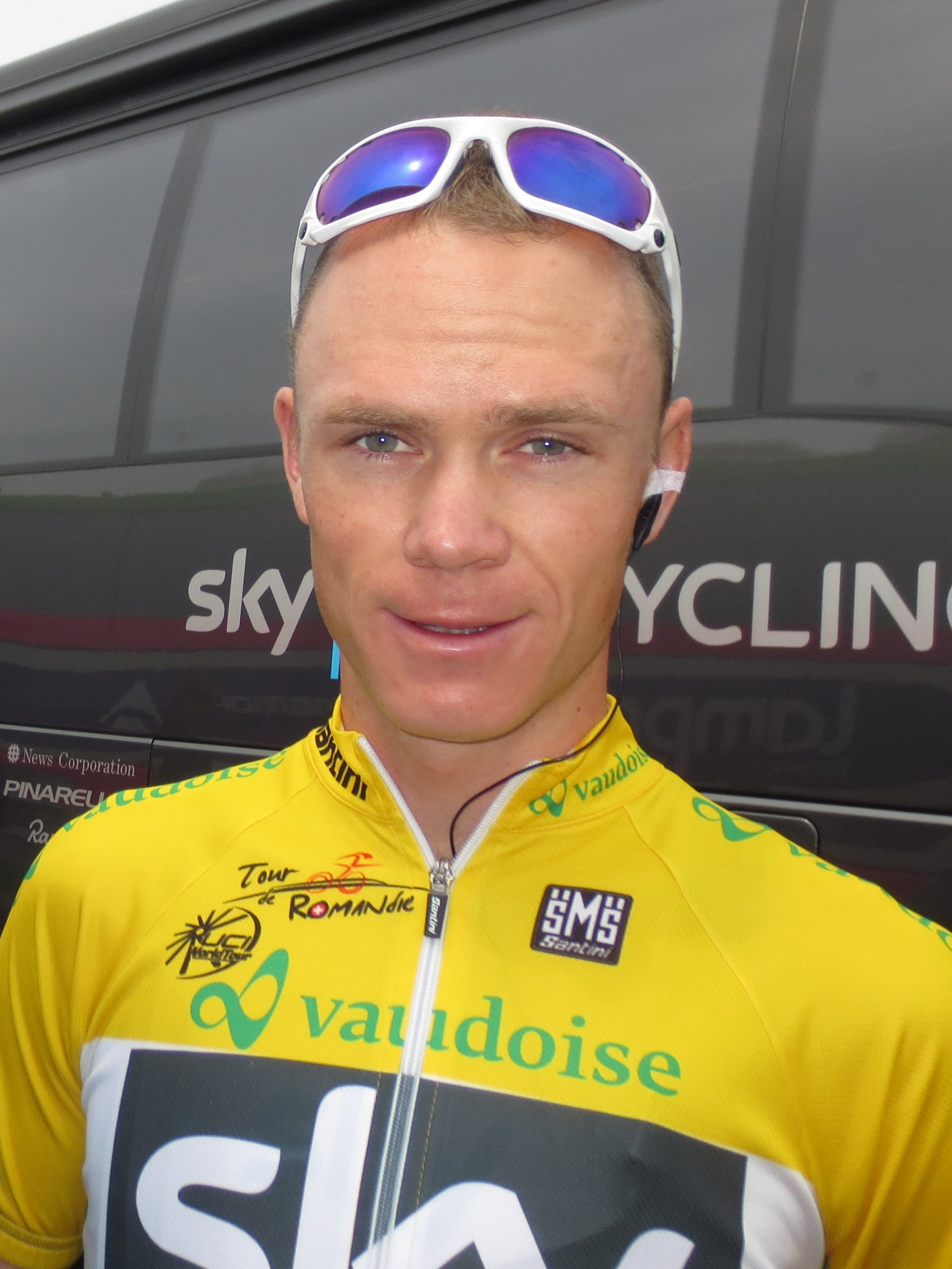 Chris Froome with the yellow jersey, Tour de Romandie 2013